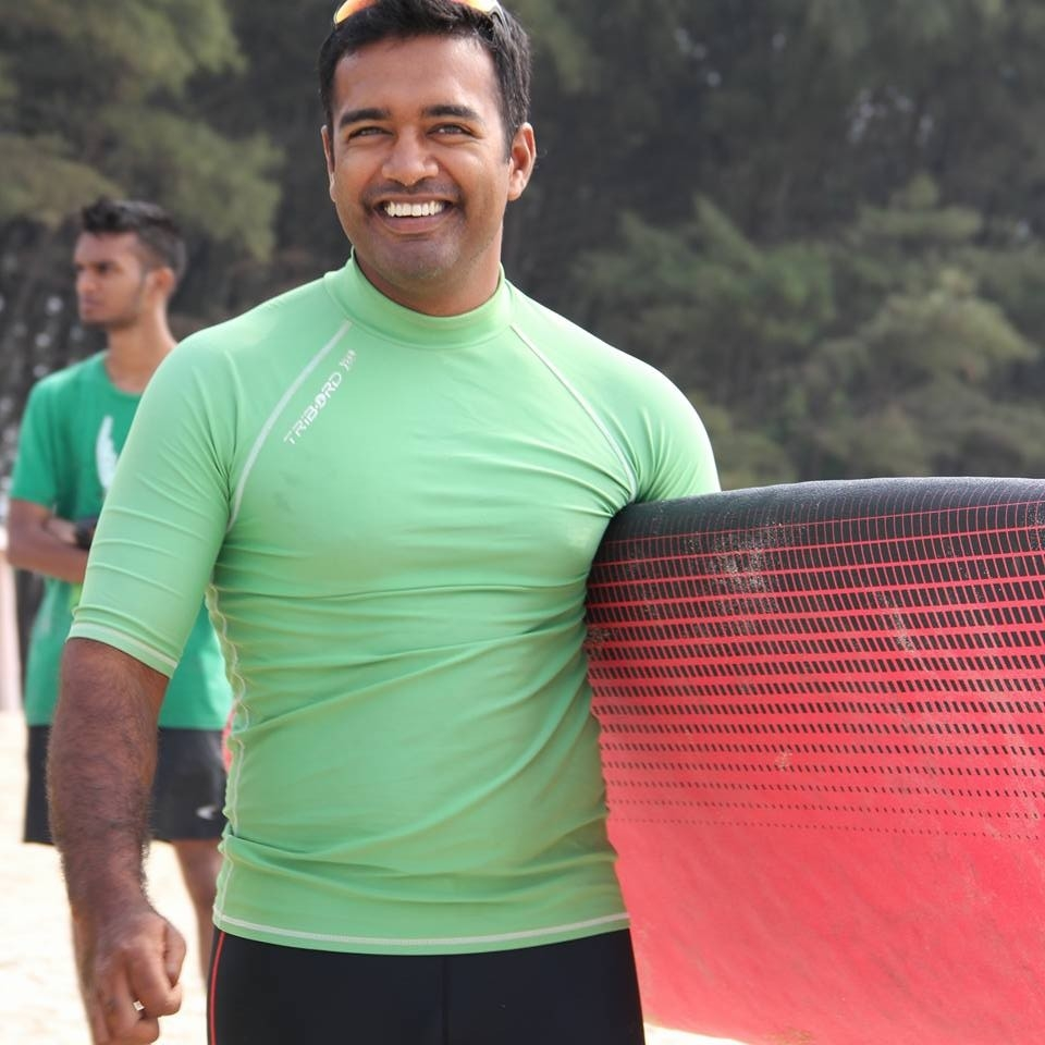 Full Name kaustubh Khade Born 17 January 1987 (age 29) Mumbai, Maharashtra Nickname KK Professional Kayaker Nationality Indian